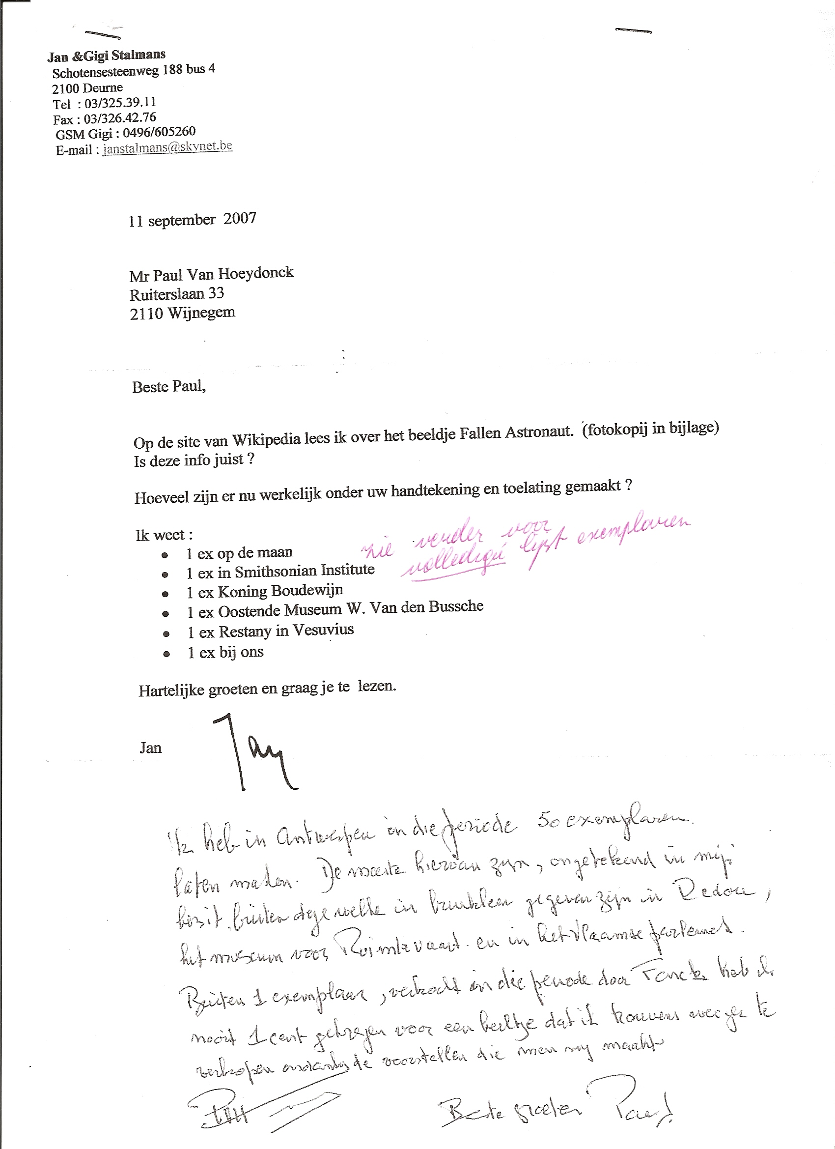 This is a letter written by Jan Stalmans sent to Paul Van Hoeydonck who returned it to Jan Stalmans with a handwritten answer on it